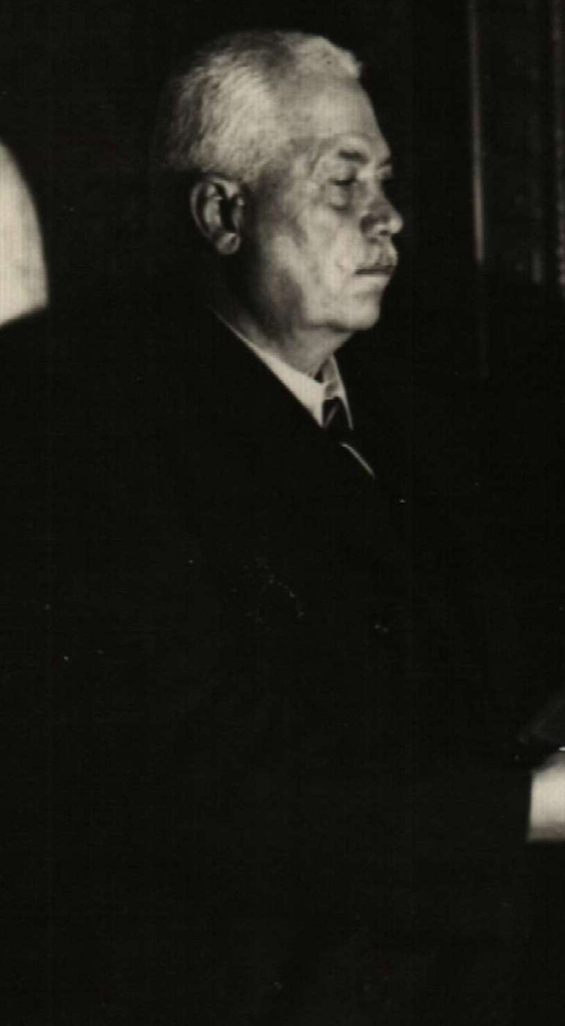 Nencho Palaveev (1859-1936)